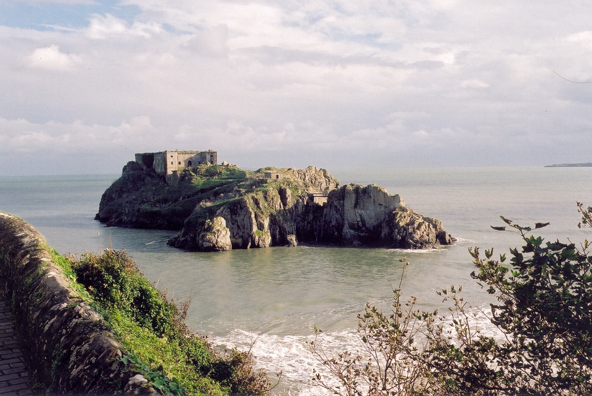 St Catherine's Island, Wales - own photograph